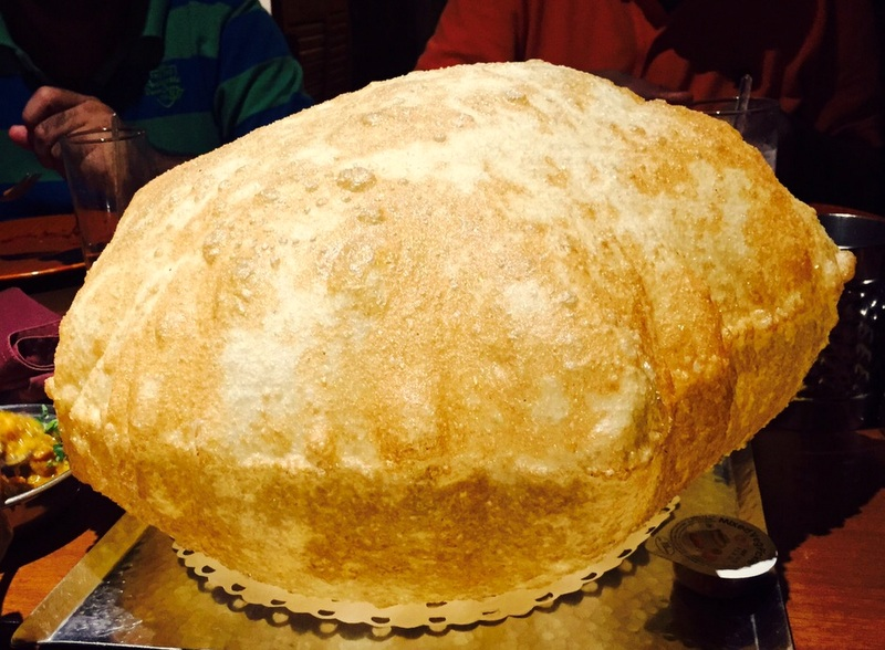 Bhatoora